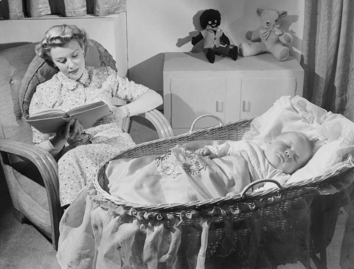 Photographic Advertising Limited Collection of National Media Museum Photographic Advertising Limited (1929-1977) created stock advertising images with the potential for selling a range of products. Idyllic household and family scenes were very popular.